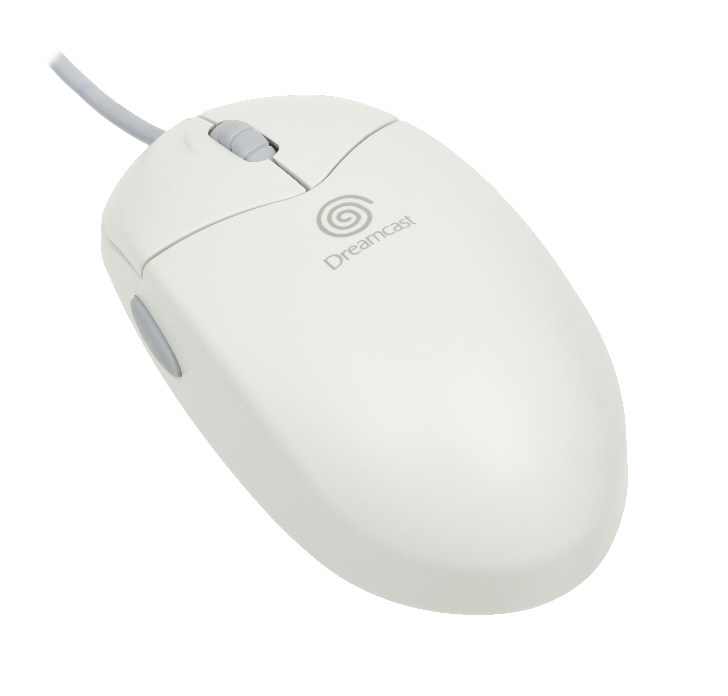 The official mouse for the Sega Dreamcast video game console, used mainly for web browsing.